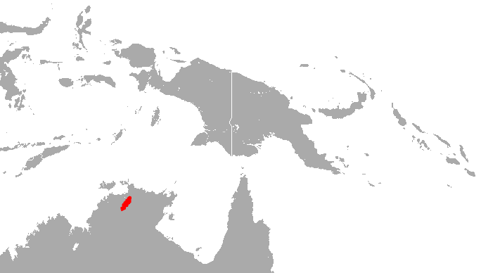 Arnhem Leaf-nosed Bat (Hipposideros inornatus) range